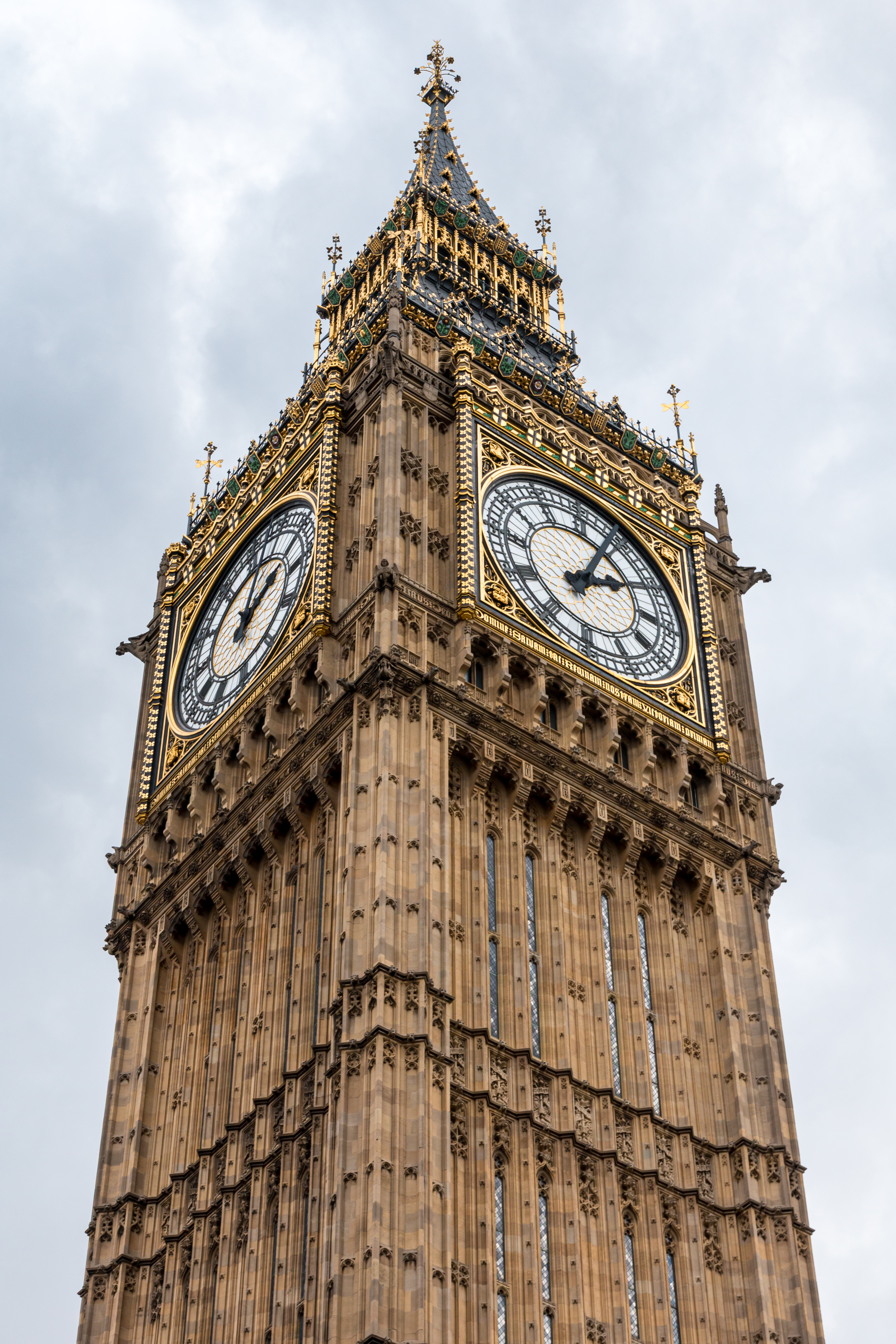 Elizabeth Tower, London, England, United Kingdom